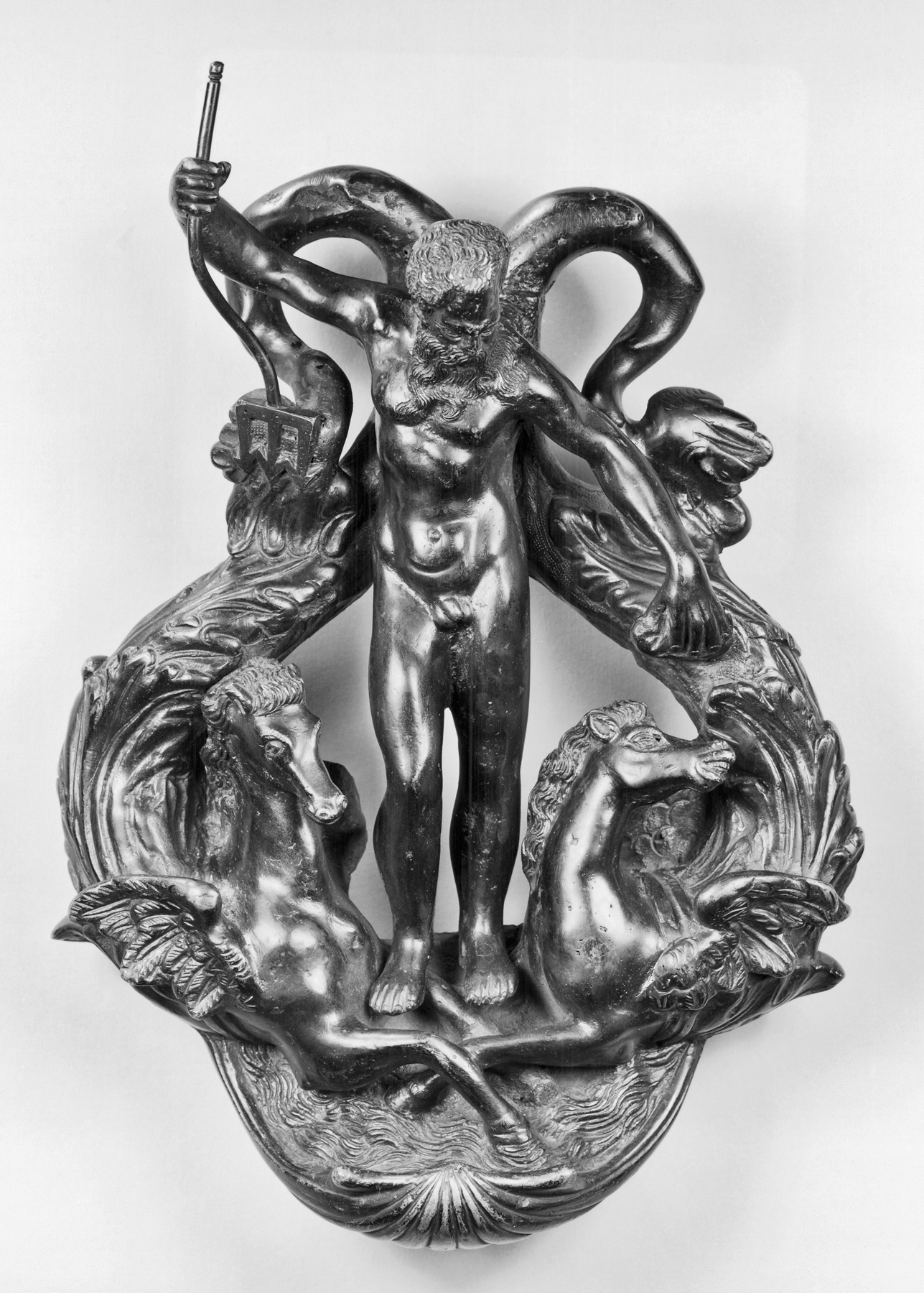 In Venice, with its great port, the Roman god Neptune, ruler of the oceans, was a popular motif for the decoration of everyday objects as well as elegant statuettes. The symmetrical, undulating forms of this knocker suggests Neptune's watery element and takes its shape from the flashing tails of his winged sea horses, the hippocamps, who draw his chariot. Doorknockers were generally crudely executed since they were produced in great numbers by a foundry. However, the model for this piece, of which there are many variants, must have been finely proportioned and crafted and has been attributed to the Venetian sculptor Alessandro Vittoria (1525-1608).